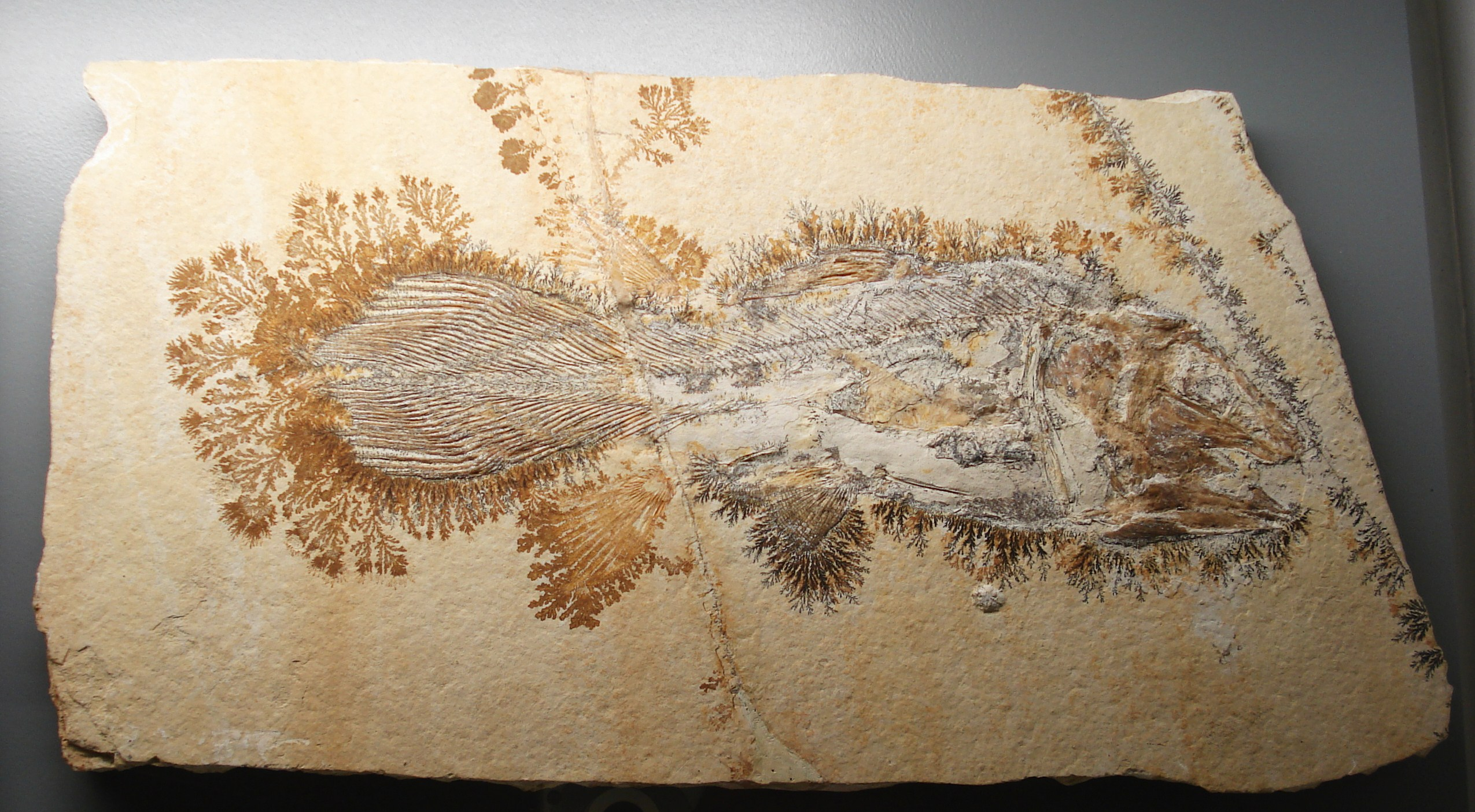 fossil of lybis